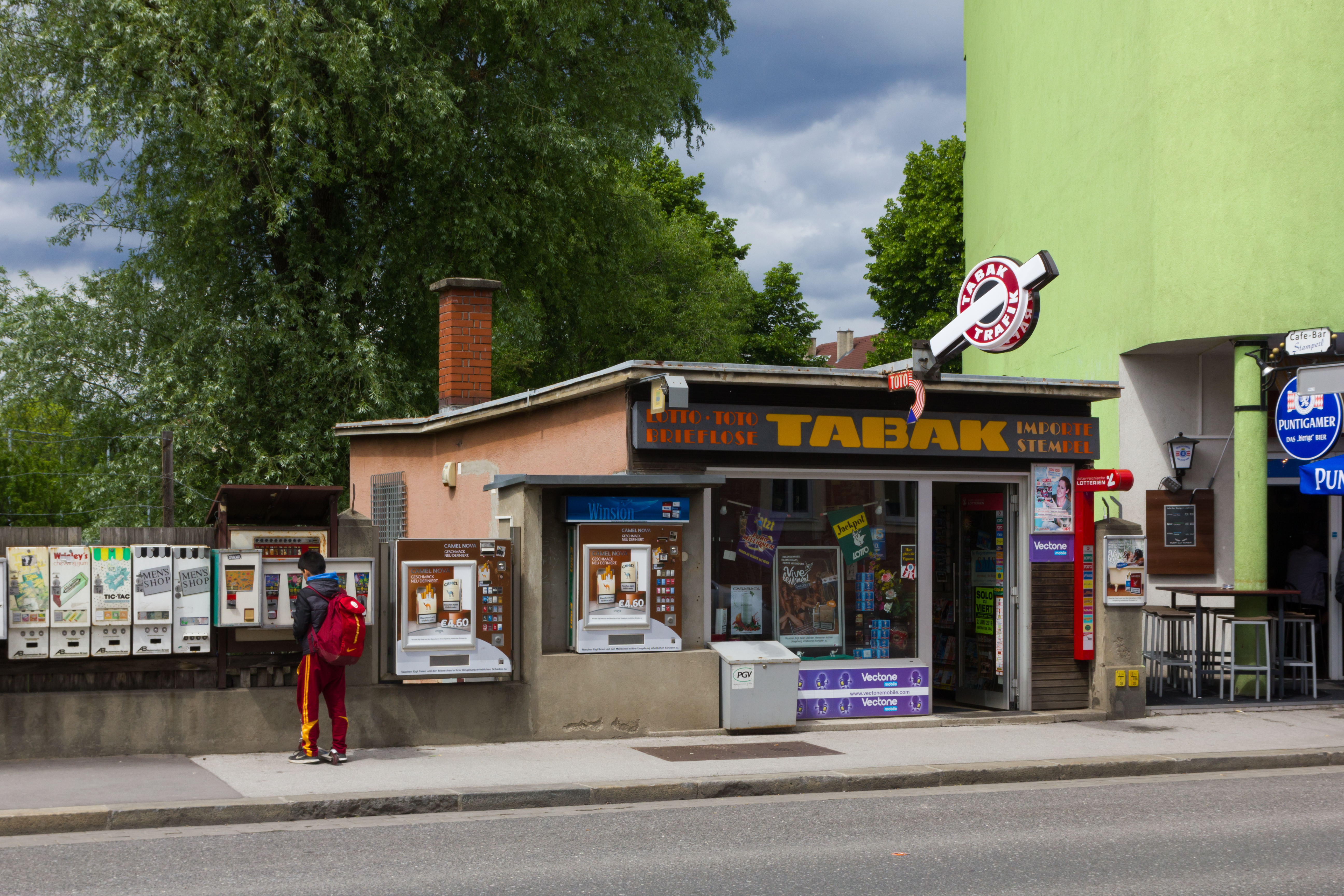 The Tabak Trafik at Keplerstraße 58 in Graz. The Trafik is sided by various vending machines.